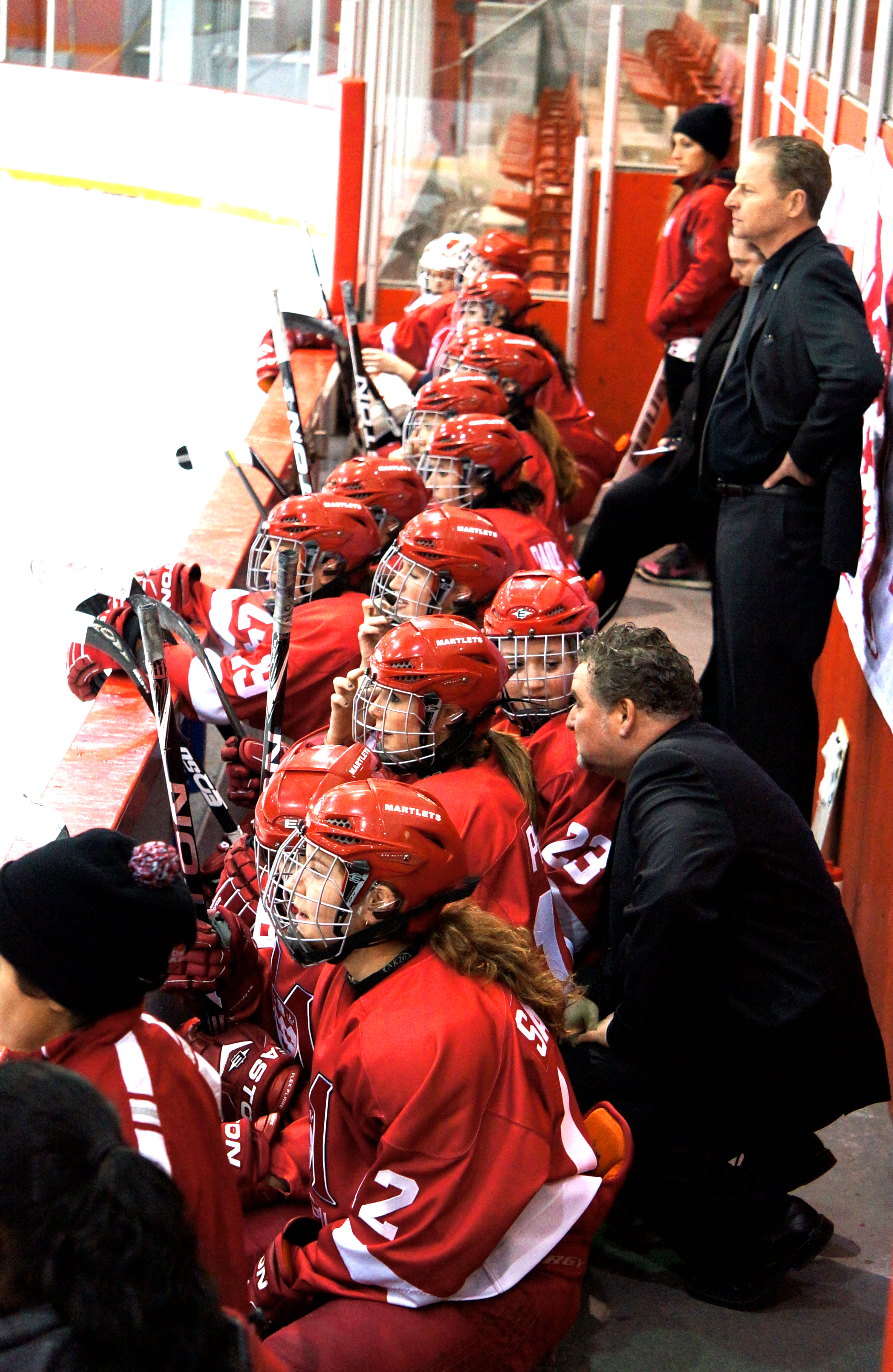 McGill Martletss